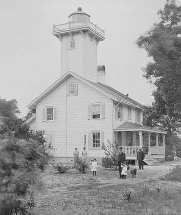 Haig Point Rear Range Light, Daufuskie Island (Beaufort County, South Carolina) This image or file is a work of a United States Coast Guard service personnel or employee, taken or made as part of that person's official duties. As a work of the U.S. federal government, the image or file is in the public domain (17 U.S.C. § 101 and § 105, USCG main privacy policy and specific privacy policy for its imagery server).